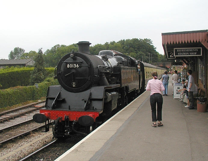 Bishops Lydeard station on the West Somerset Railway, Somerset, England. Photographed by Adrian Pingstone on 26th August 2003 and released to the public domain.